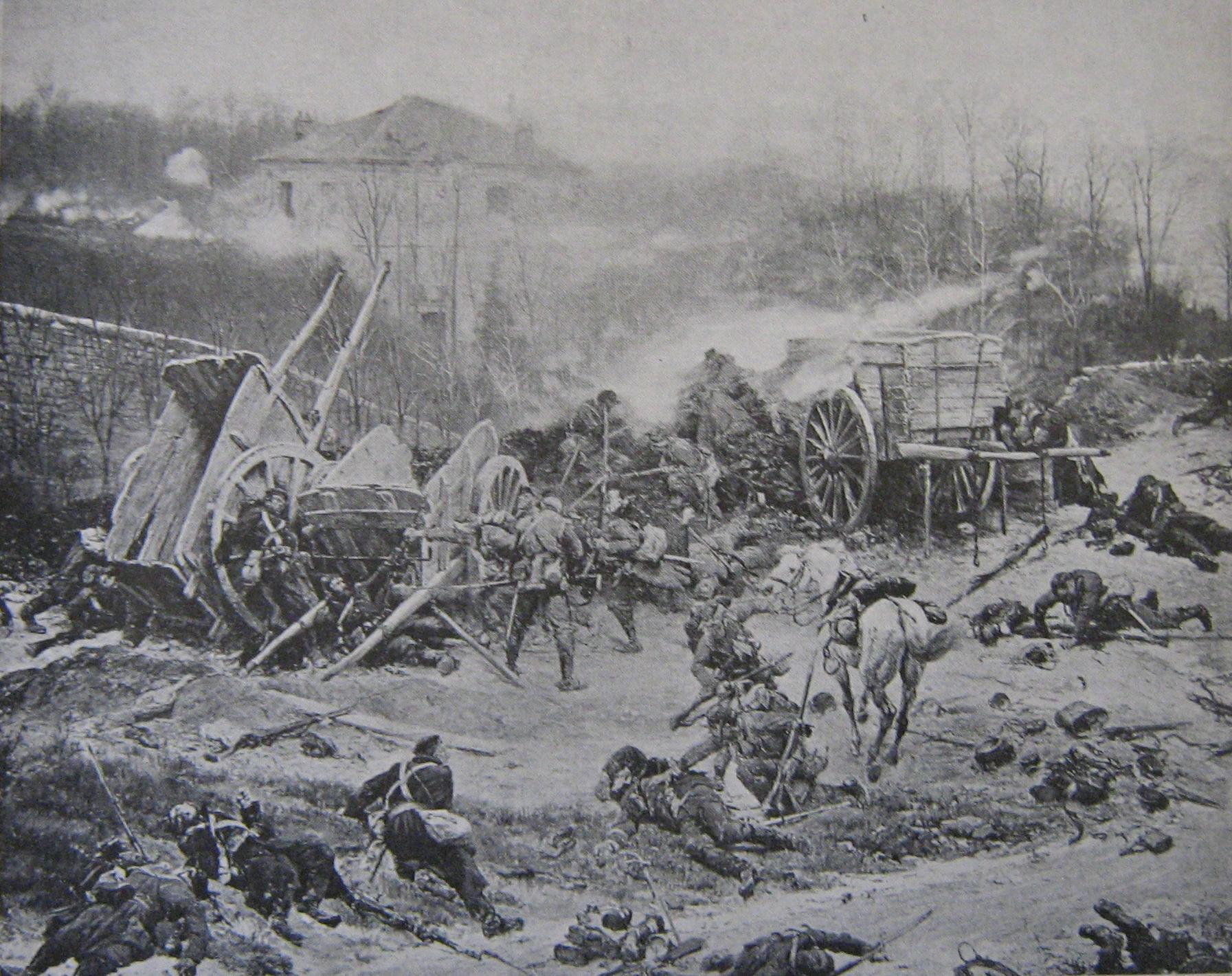 scene from the battle of Champigny, print from a painting by Alphonse-Marie-Adolphe de Neuville.